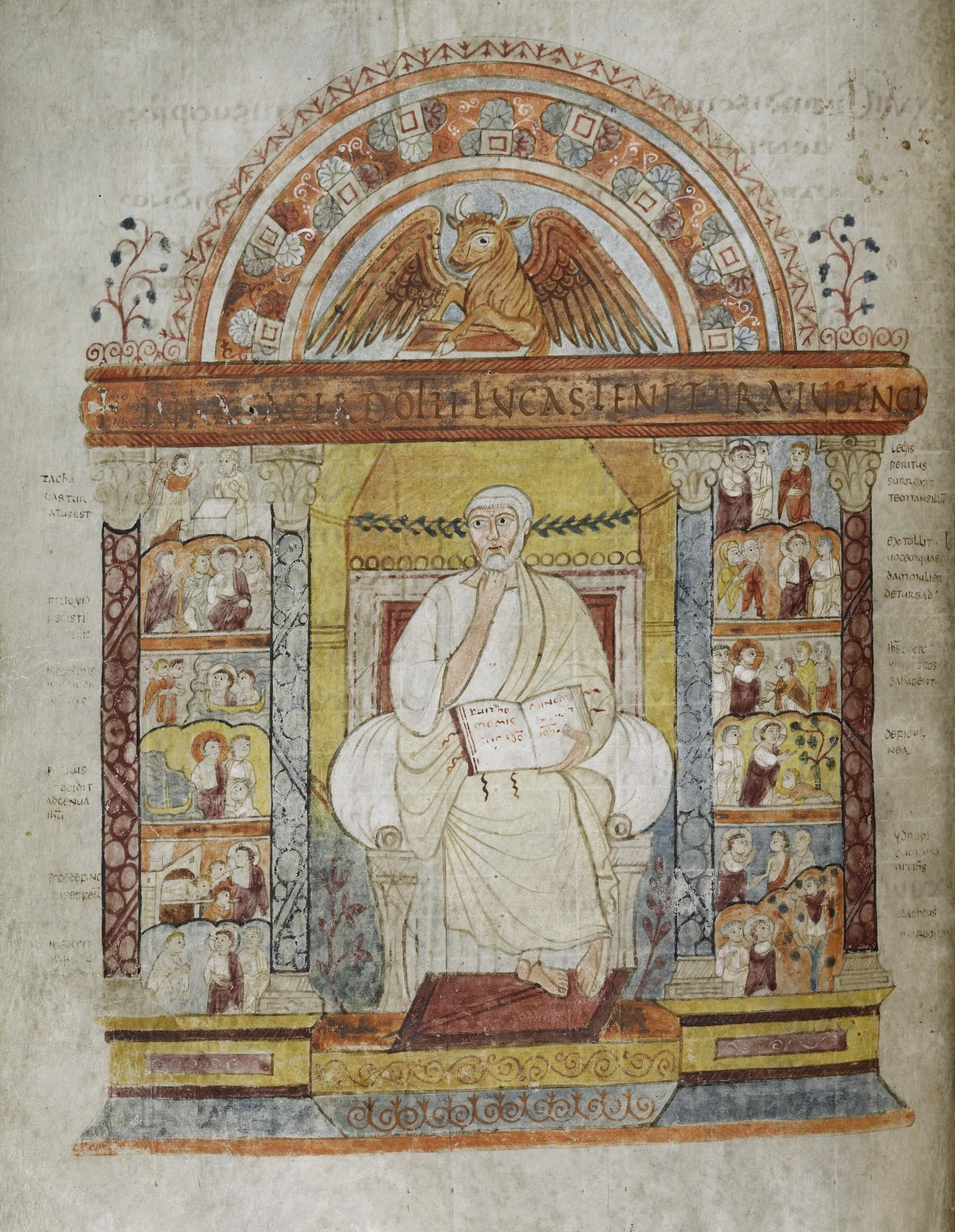 Illuminated miniature of Luke with a quotation from Sedulius' Paschale carmen inscribed in uncial letters above his head. St Augustine's Gospels, Corpus Christi College, Cambridge, MS 286, folio 129r. The manuscript was probably started in Italy with later additions at St. Augustine's Abbey, Canterbury.